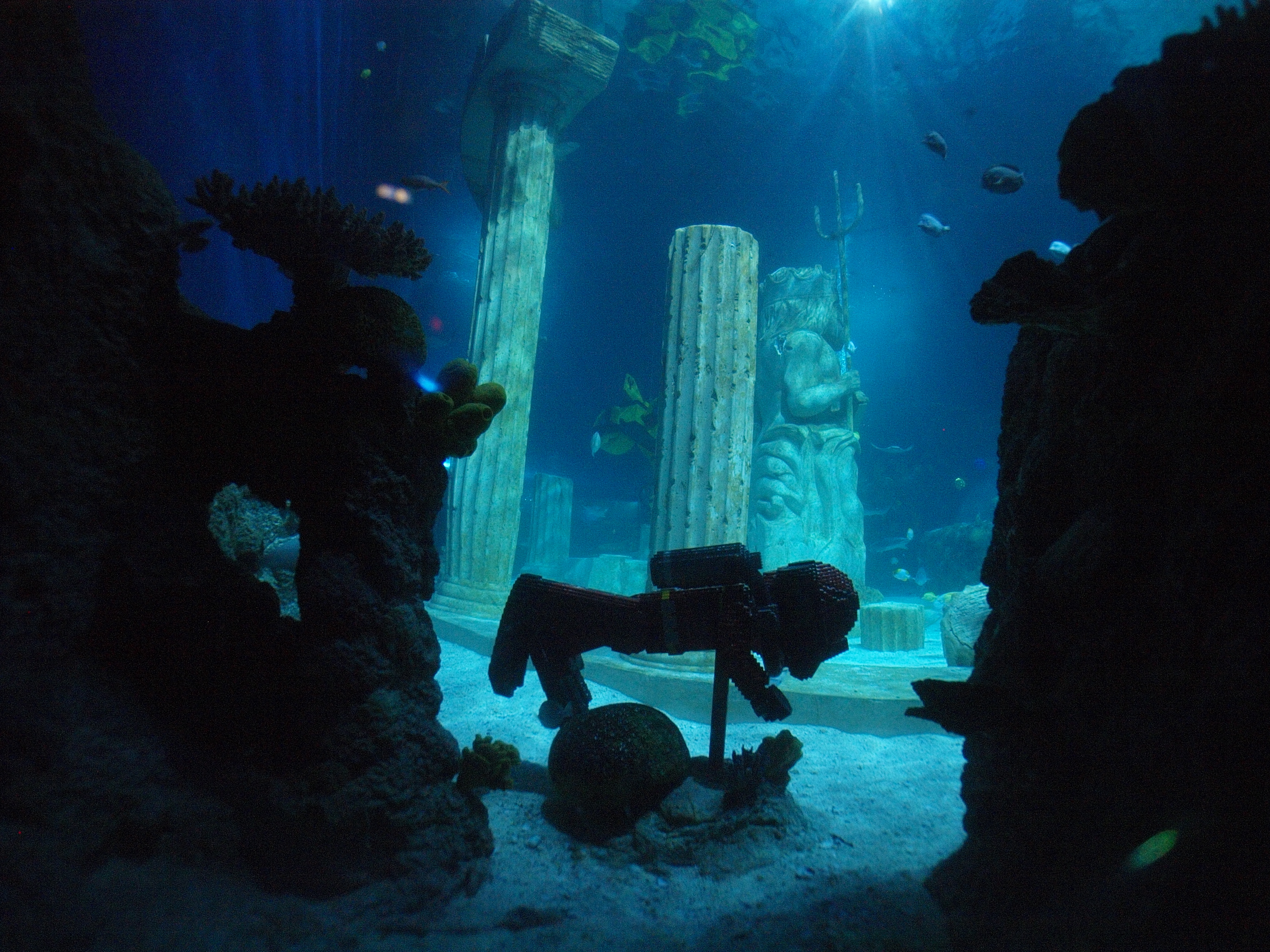 The aquaria at the Sea Life Aquarium near Legoland California feature large LEGO models inside the tanks.